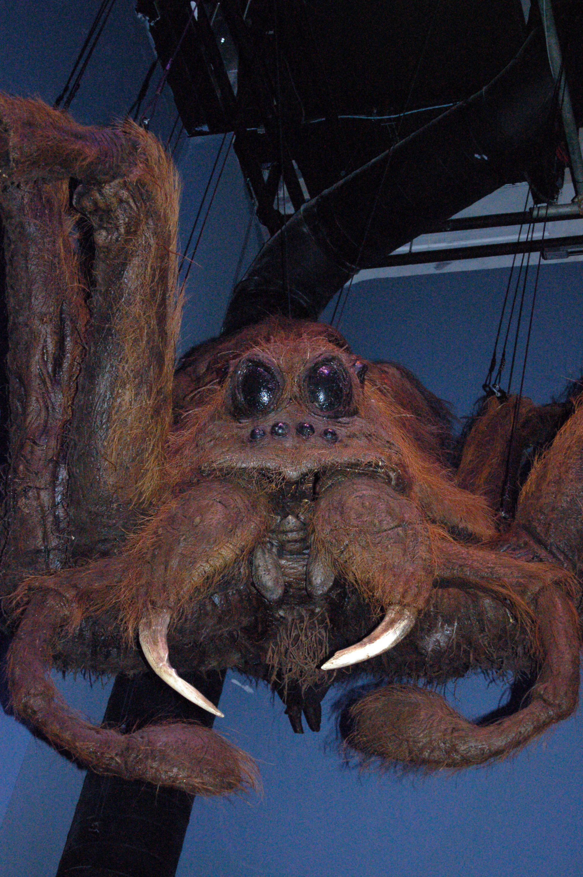 Aragog